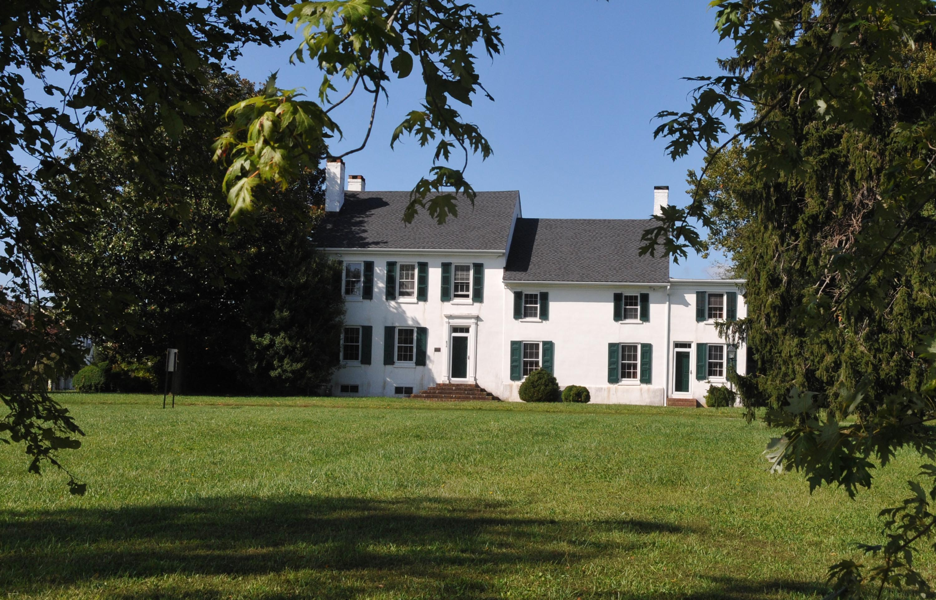 Eden Hill BUILT IN 1749 BY NICHOLAS RIDGELY. NOW HAS BEEN RENOVATED AND SERVES AS THE CHAMBERS OF A HENRY DUPONT RIDGELY, A DESCENDENT OF NICHOLAS; BOTH HAVE SERVED ON THE DELAWARE SUPREME COURT